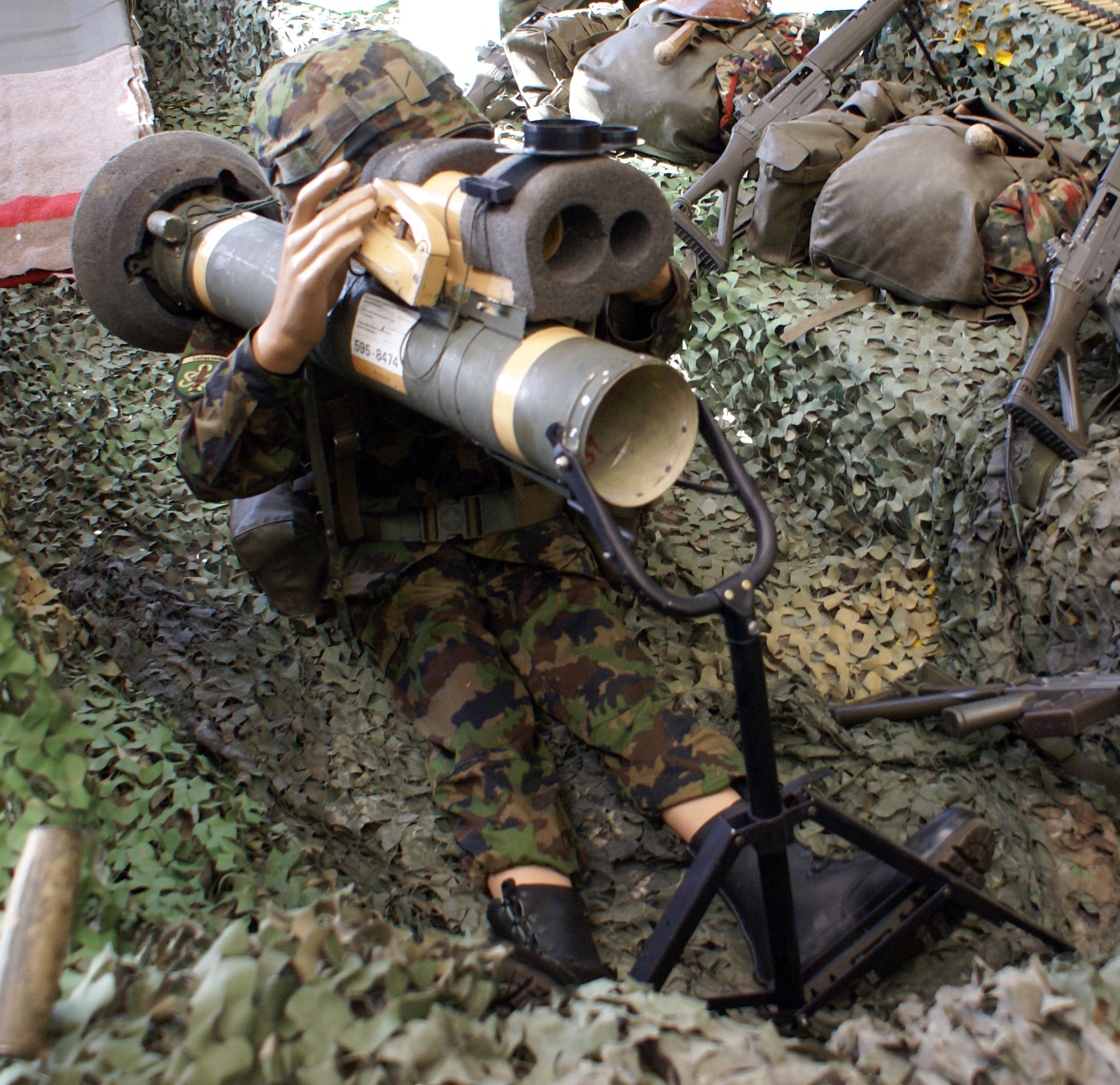 Swiss Army. DRAGON man-portable anti-tank missile system (PAL BB 77). Improved version of the US M47 Dragon.